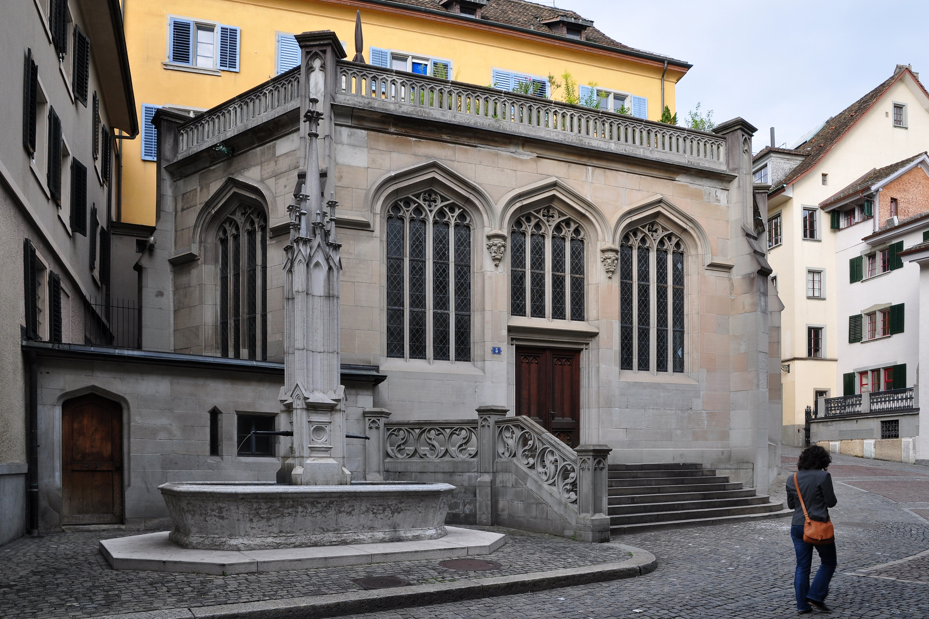 Zürich, Zwingliplatz 13, Kirchgassse/Oberdorfstrasse (Grossmünster) : Helferei Grossmünster, where Ulrich Zwingli (* 1484 in Wildhaus; † 1531 in Kappel am Albis) did his work and went to the 2nd battle at Kappel, where he was killed.